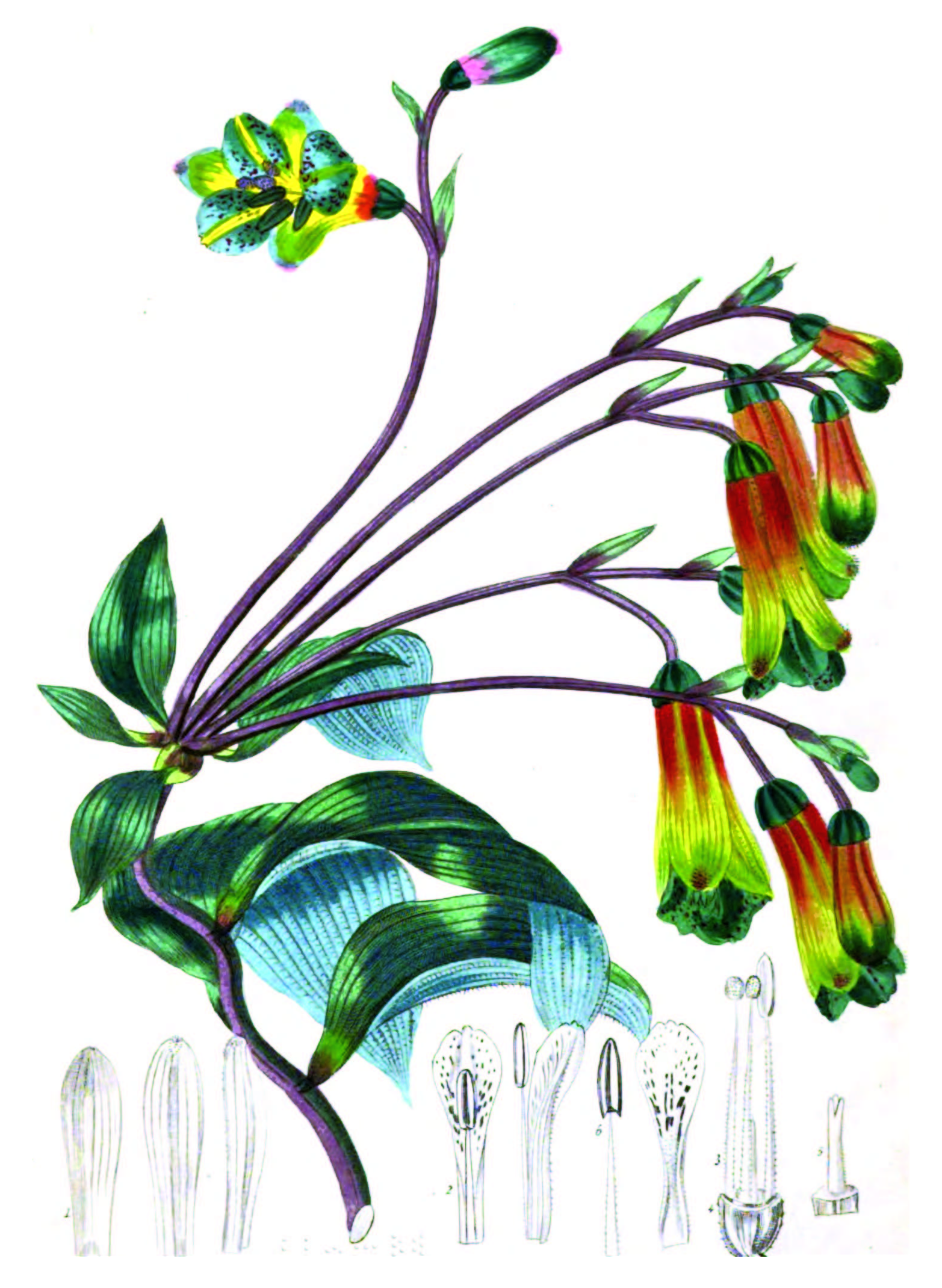 Bomarea edulis